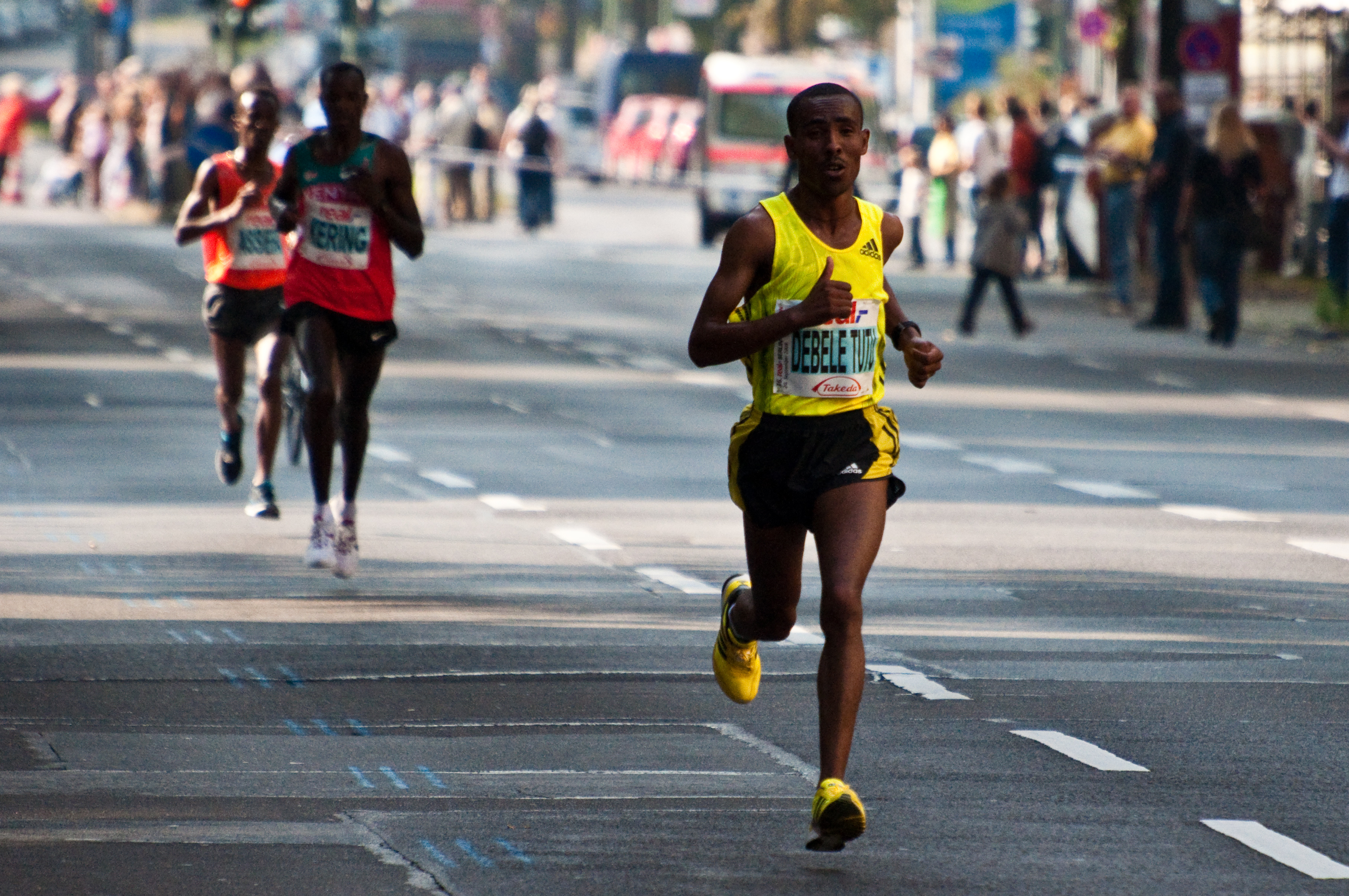 Dereje Debele Tulu (ETH) is being chased by Alfred Kering (KEN) and Grima Assefa (ETH). They came in fourth, fifth and sixth respectively. Taken while on holiday in Berlin for a long weekend.